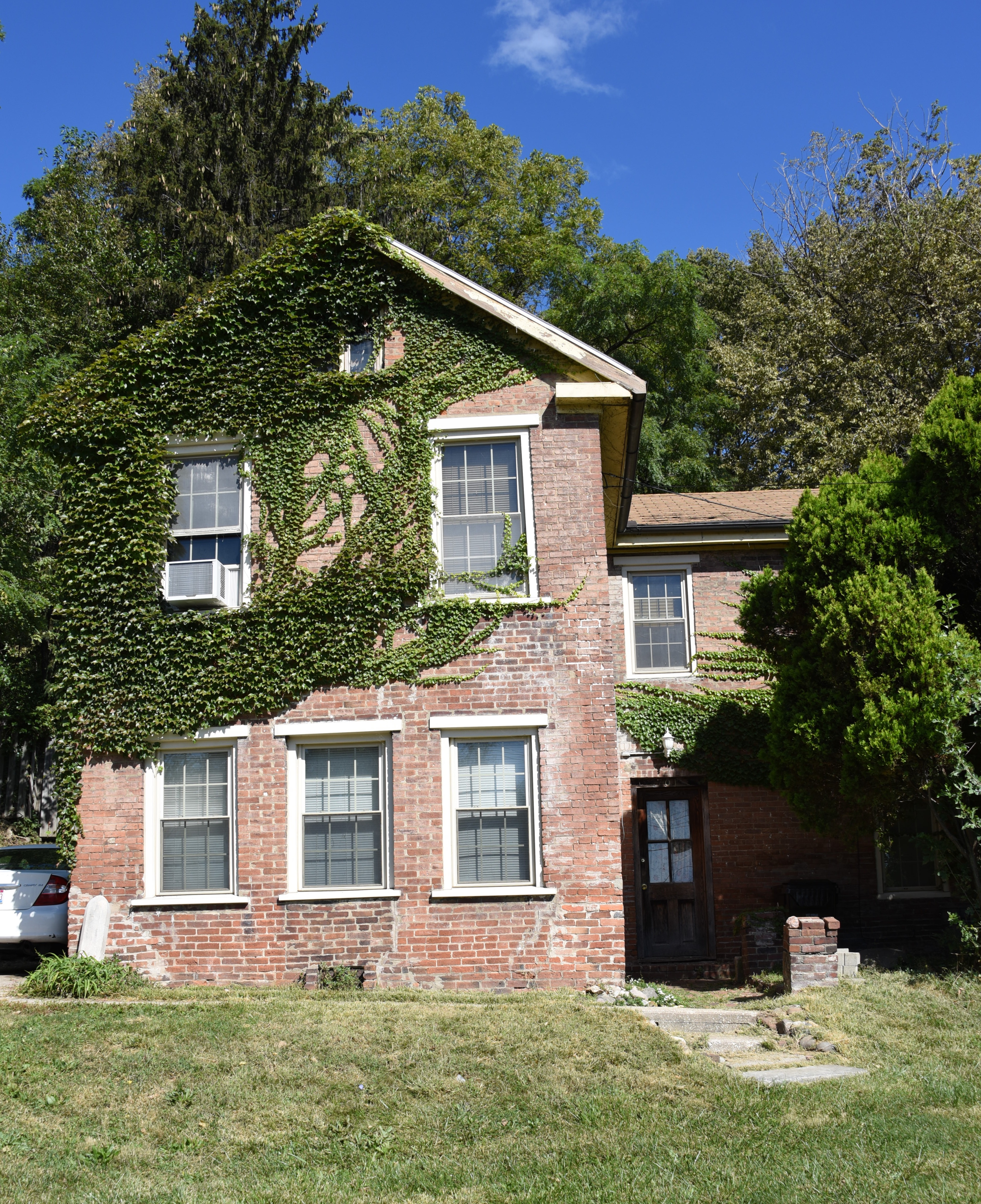 Peoria Mineral Springs